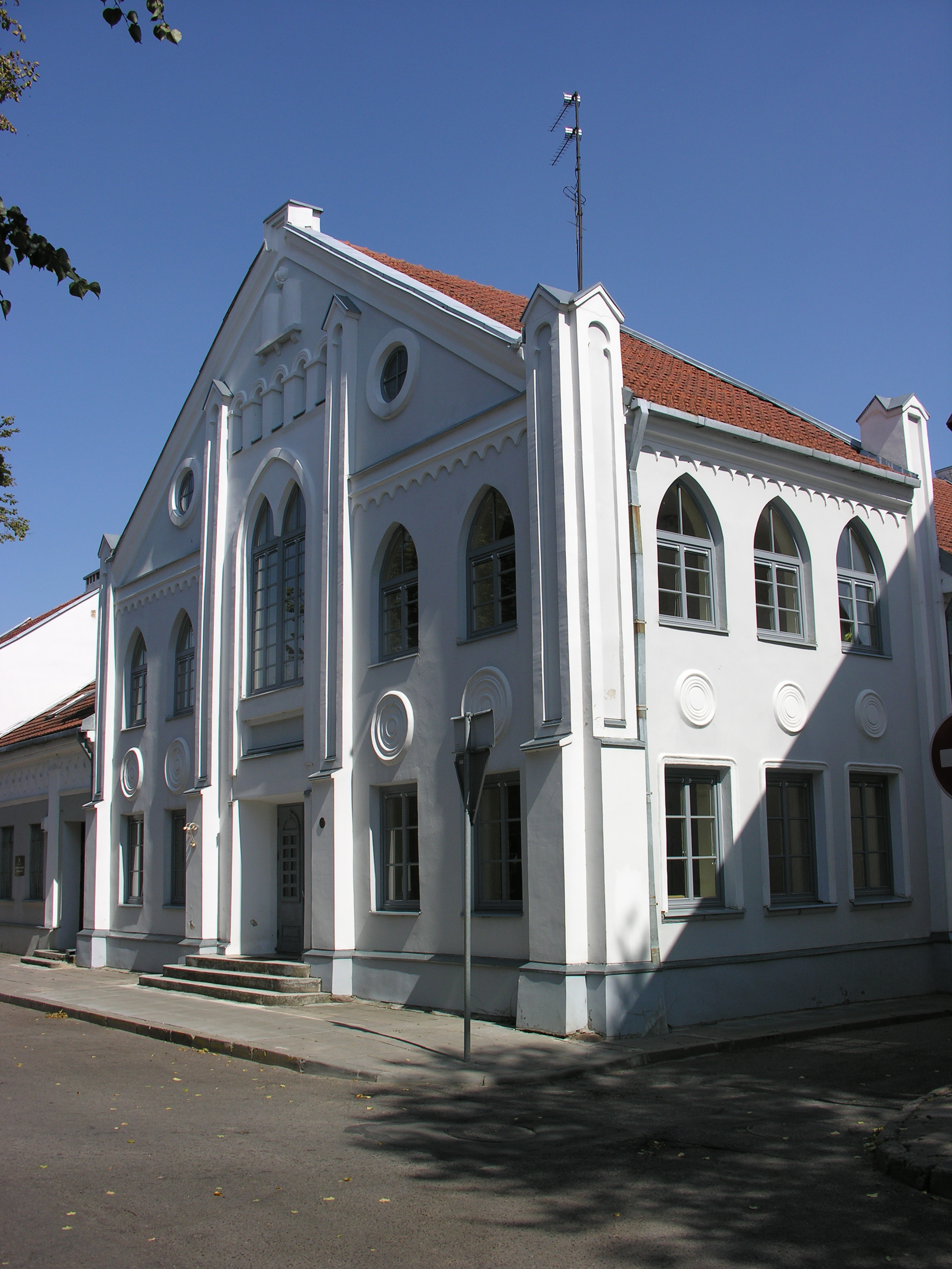 Synagoga w Mariampolu